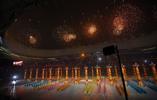 Fireworks explode above the National Stadium as artists perform Friday evening, Aug. 8, 2008 in Beijing, during the Opening Ceremonies of the 2008 Summer Olympics.